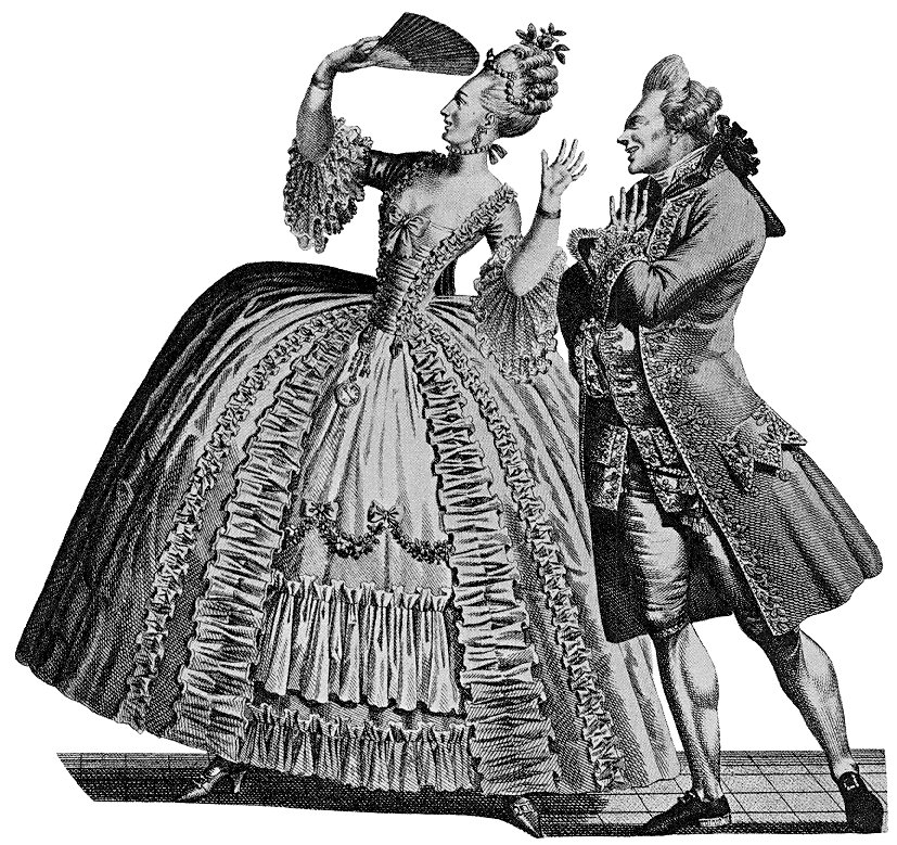 A 1793 depiction of a couple dressed in French formal court styles of ca. 1778. (For a contemporary 1778 color depiction of an outfit similar to what the woman is wearing, see Image:1778-jeune-dame-de-qualite-en-grande-robe.jpg.) Caption: "OH! QUELLE FOLLIE QUE LA NOUVEAUTÉ....." This is the right half of a plate from Vernet's "Incroyables et Merveilleuses" series, 1793. (for the whole context of the engraving see Image:1793-1778-contrast-wholeplate-lowQ.jpg). Note that in the partial reproduction of the 1793 original which was scanned for this image, the end of the man's sword-hilt projecting out behind was omitted (go to Image:1793-1778-contrast-wholeplate-lowQ.jpg to see it).